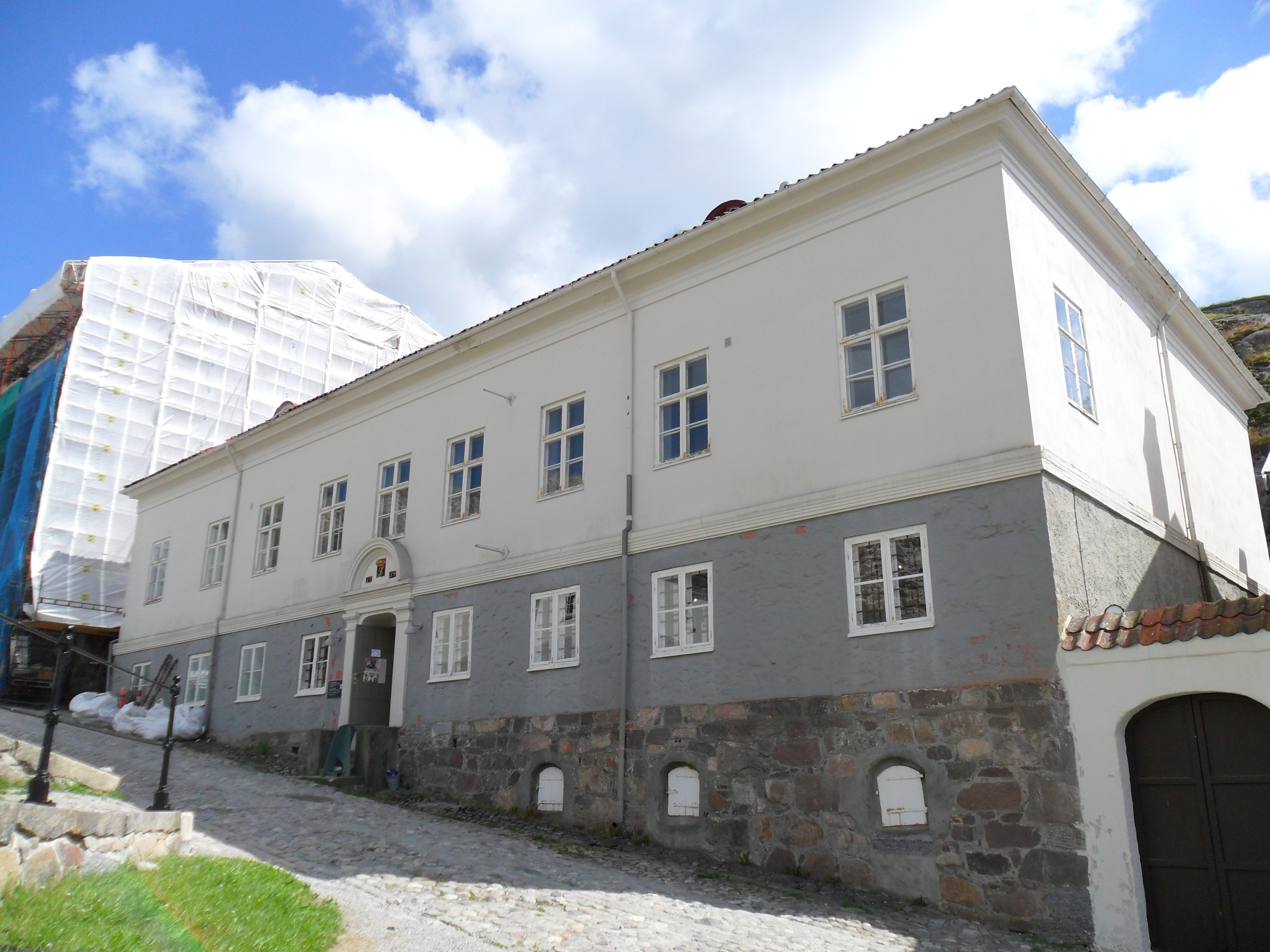 Den gamle kommandantbolig - building at Fredriksten fortress in Halden, Norway, originally from 1754. Burned down in 1826 and rebuilt by Balthazar Nicolai Garben in 1832. Monogram of Frederik V of Denmark and Norway above the entrancedoor.